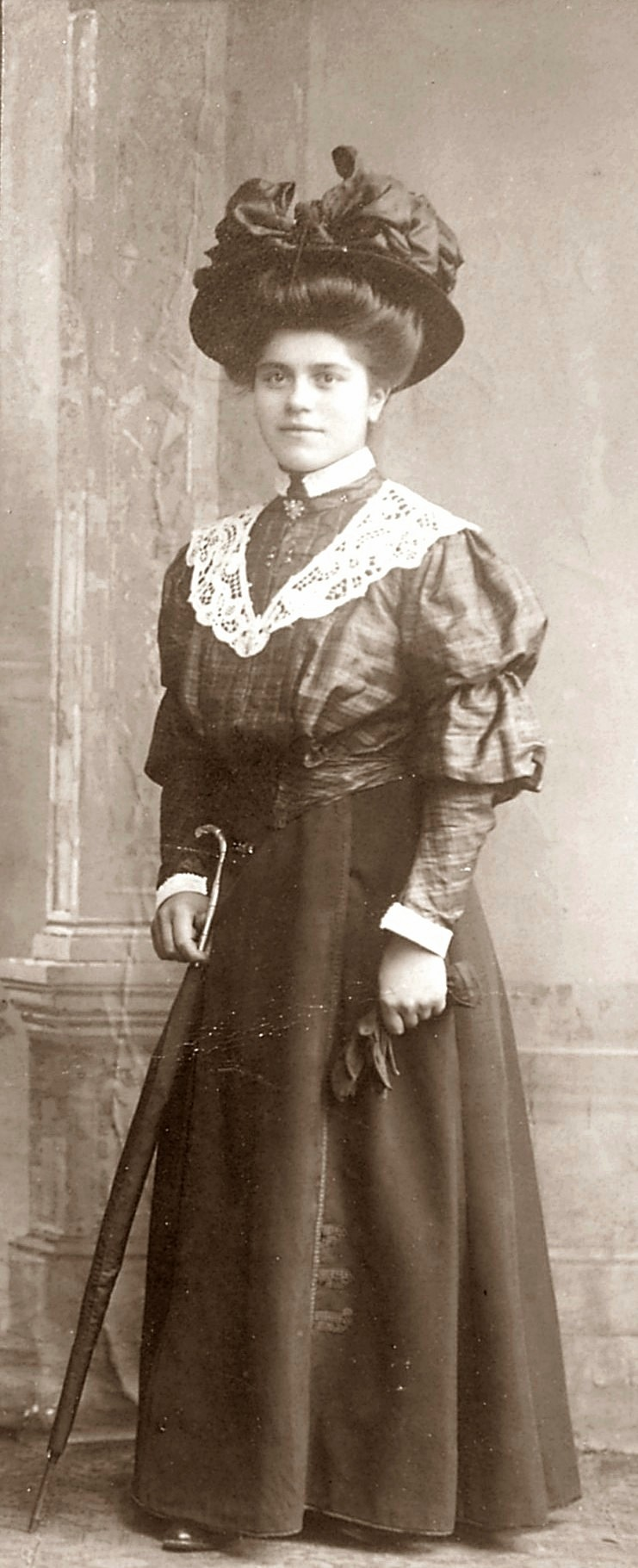 Photograph of Marie Louise von Hannover Cumberland, Princess of Great Britain and Ireland, Duchess of Brunswick-Lüneburg.